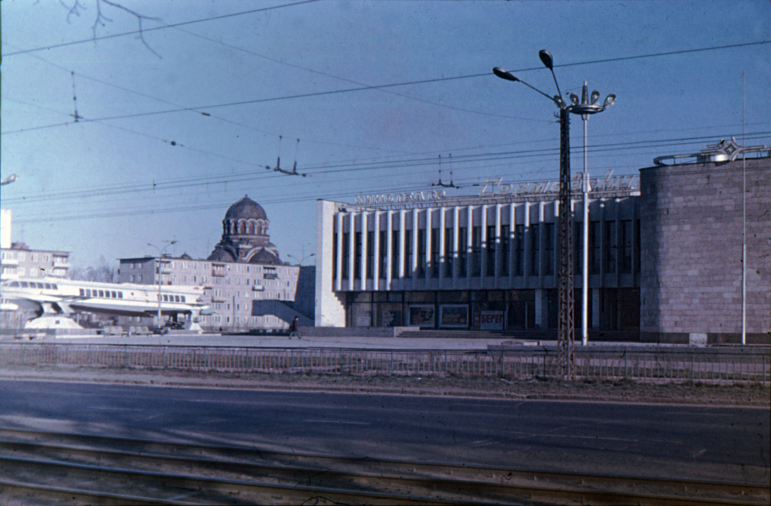 Gorky City. Sormovsky Cinema